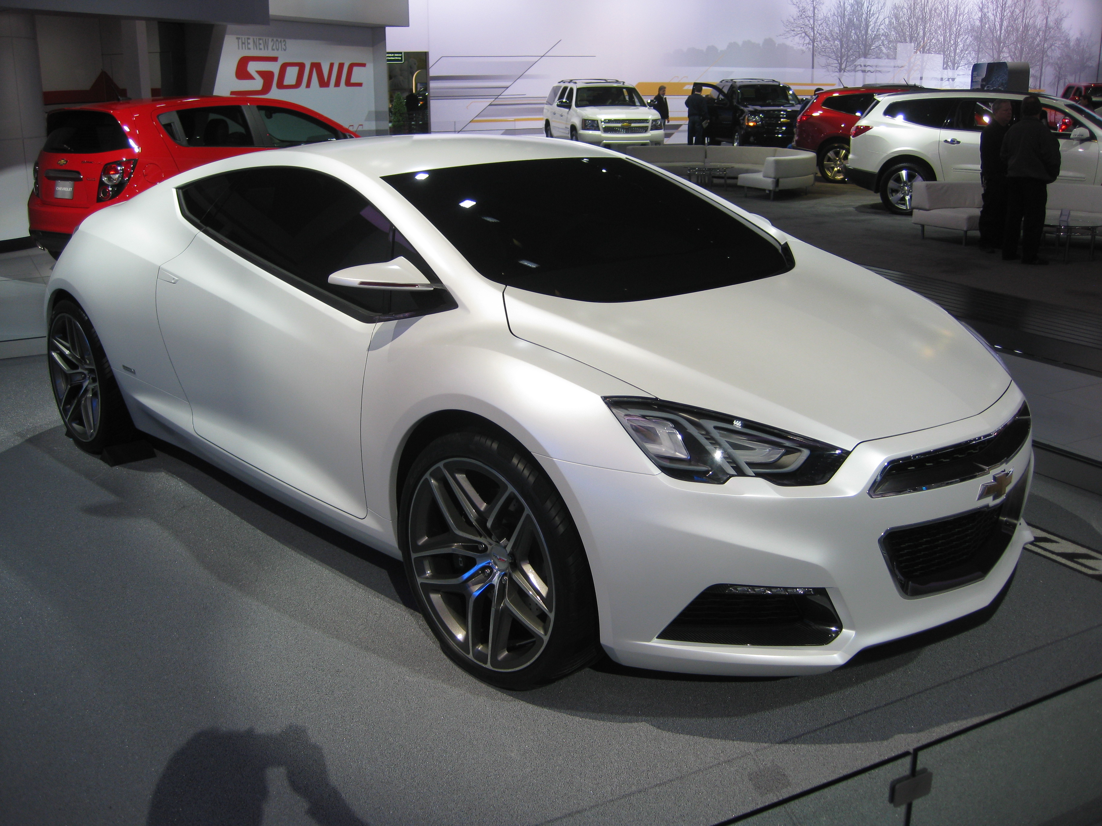 For more info and images please check